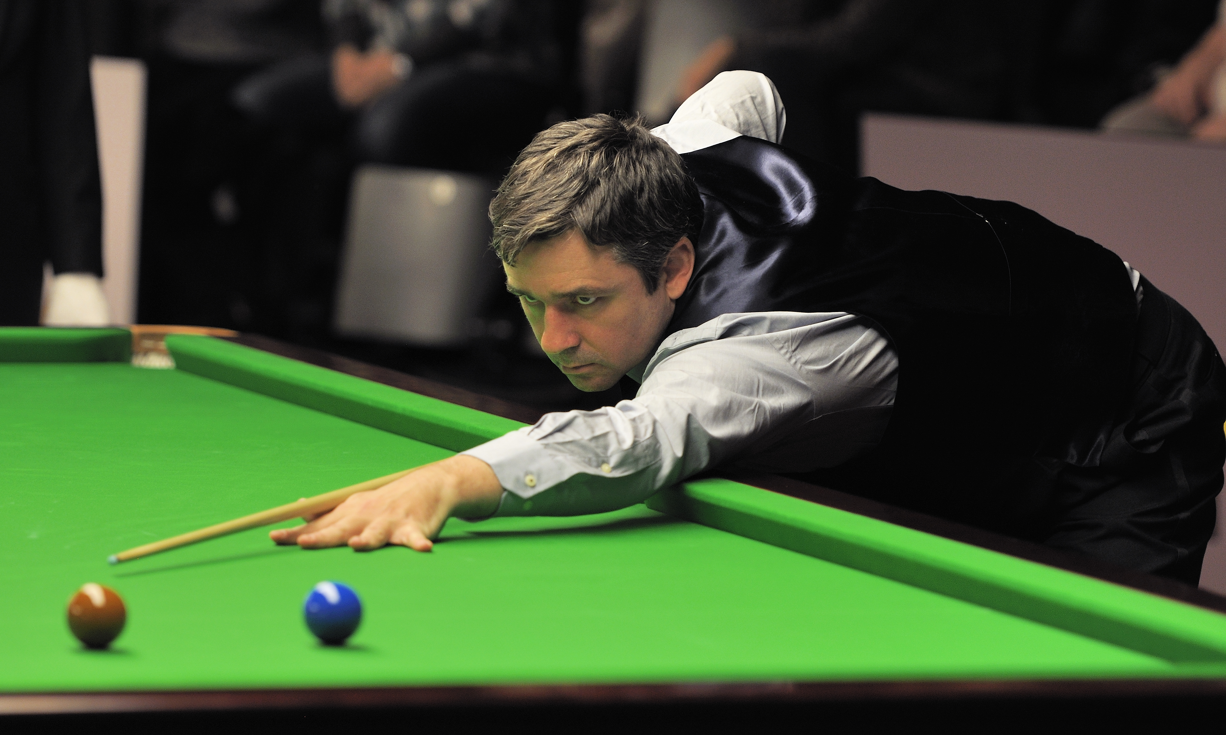 Picture taken in Berlin during the Snooker German Masters in 2014. Alan McManus.